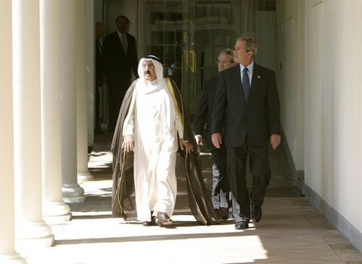 President George W. Bush and Prime Minister Sheikh Sabah al Ahmad al-Jabir Al Sabah of Kuwait walk along the colonnade after the two leaders met with reporters in the Oval Office on Wednesday, Sept. 10, 2003.